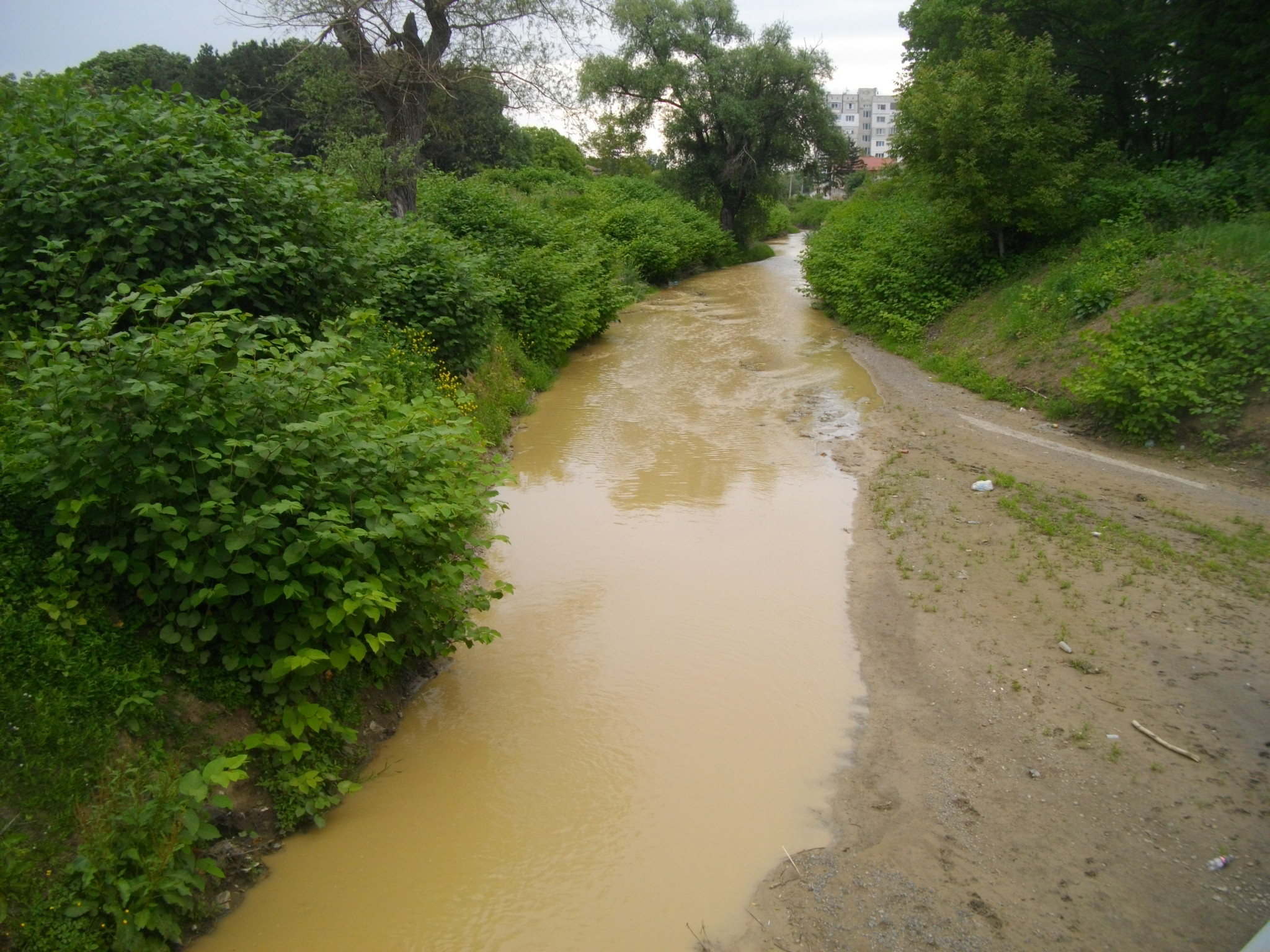 Kakach river in Sofia